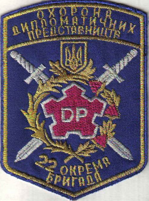 Narukavnyj sign 22 Diplomatic brigade on National guards of Ukraine, Kiev.